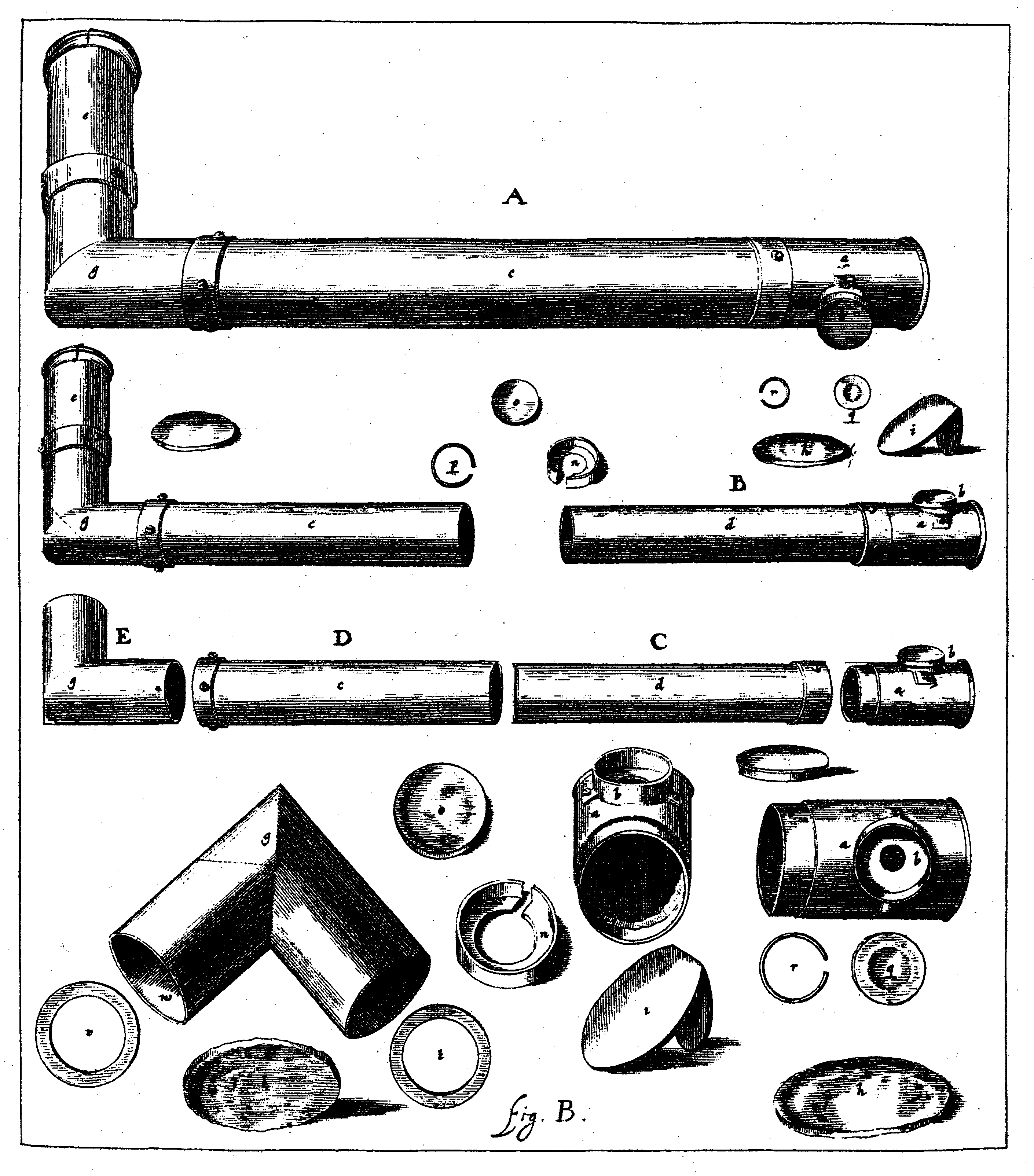 Technical drawing of a periscope with lenses, by Johannes Hevelius, published in his book "Selenographia sive lunae descriptio", 1647. Hevelius called his Invention polemoscope.